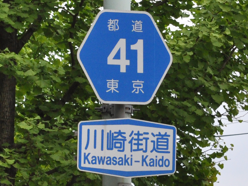 Sign of Kawasaki-Kaido Way in Inagi, Tokyo, Japan.